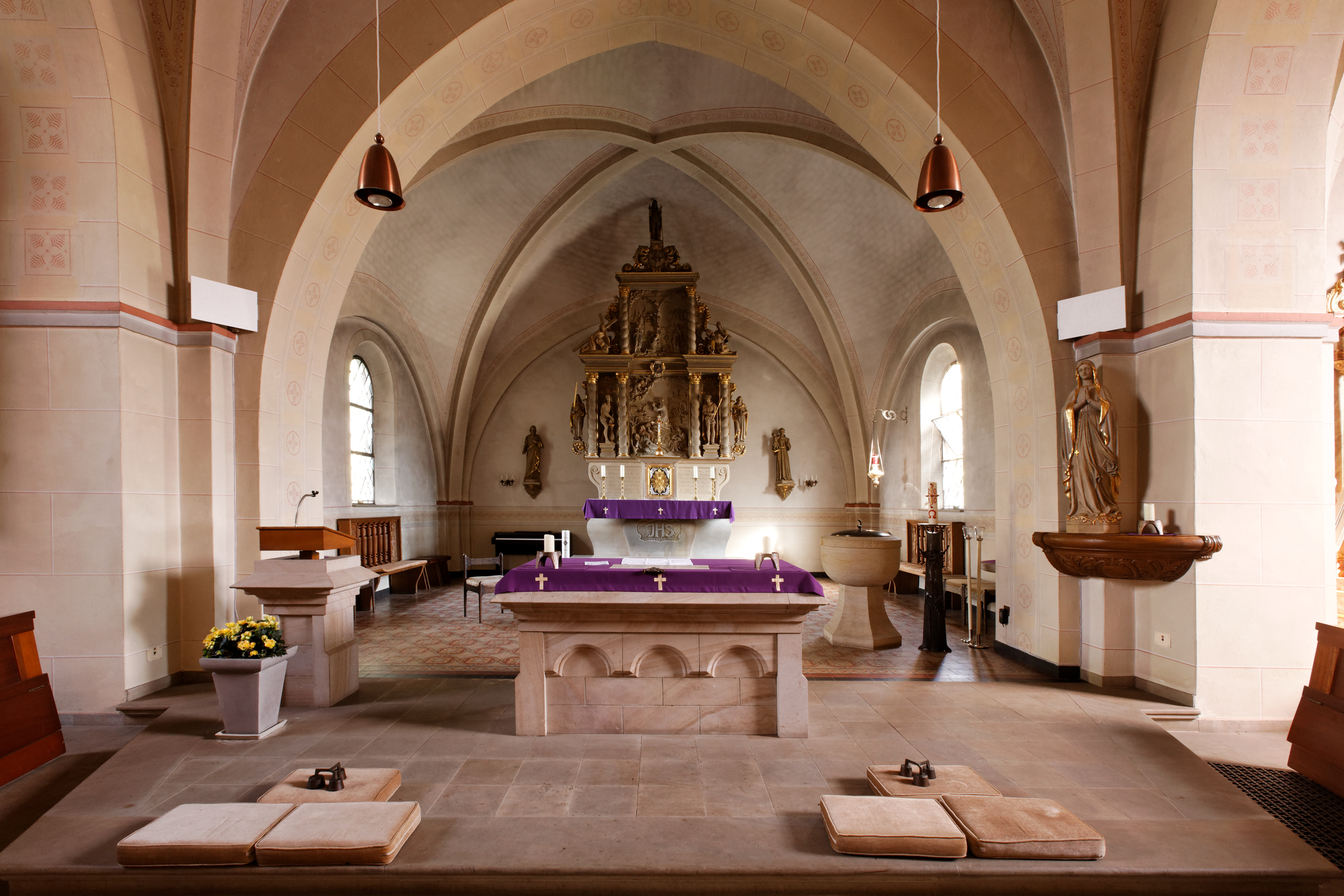 Inside the St. Mary Church, Sevelten, Germany